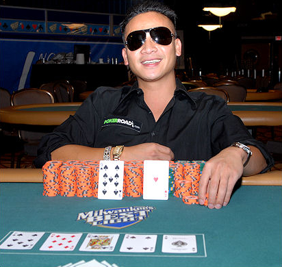 John Phan after winning his first bracelet at the 2008 World Series of Poker